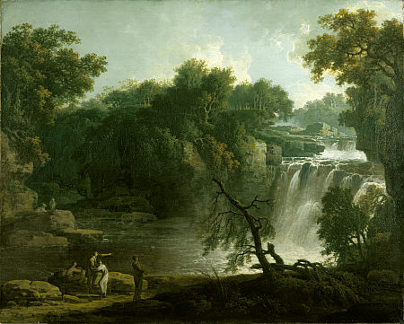 The Falls of Clyde (Corra Linn) by Jacob More. Sir Joshua Reynolds bought Cora Linn when More exhibited the series of Clyde Falls in London in 1771. The others in the series are Bonington Linn (Fitzwilliam Museum, Cambridge) and Stonehouse Linn (private collection). Oil on canvas, Size: 79.40 x 100.40 cm (framed: 93.90 x 114.10 x 7.70 cm)